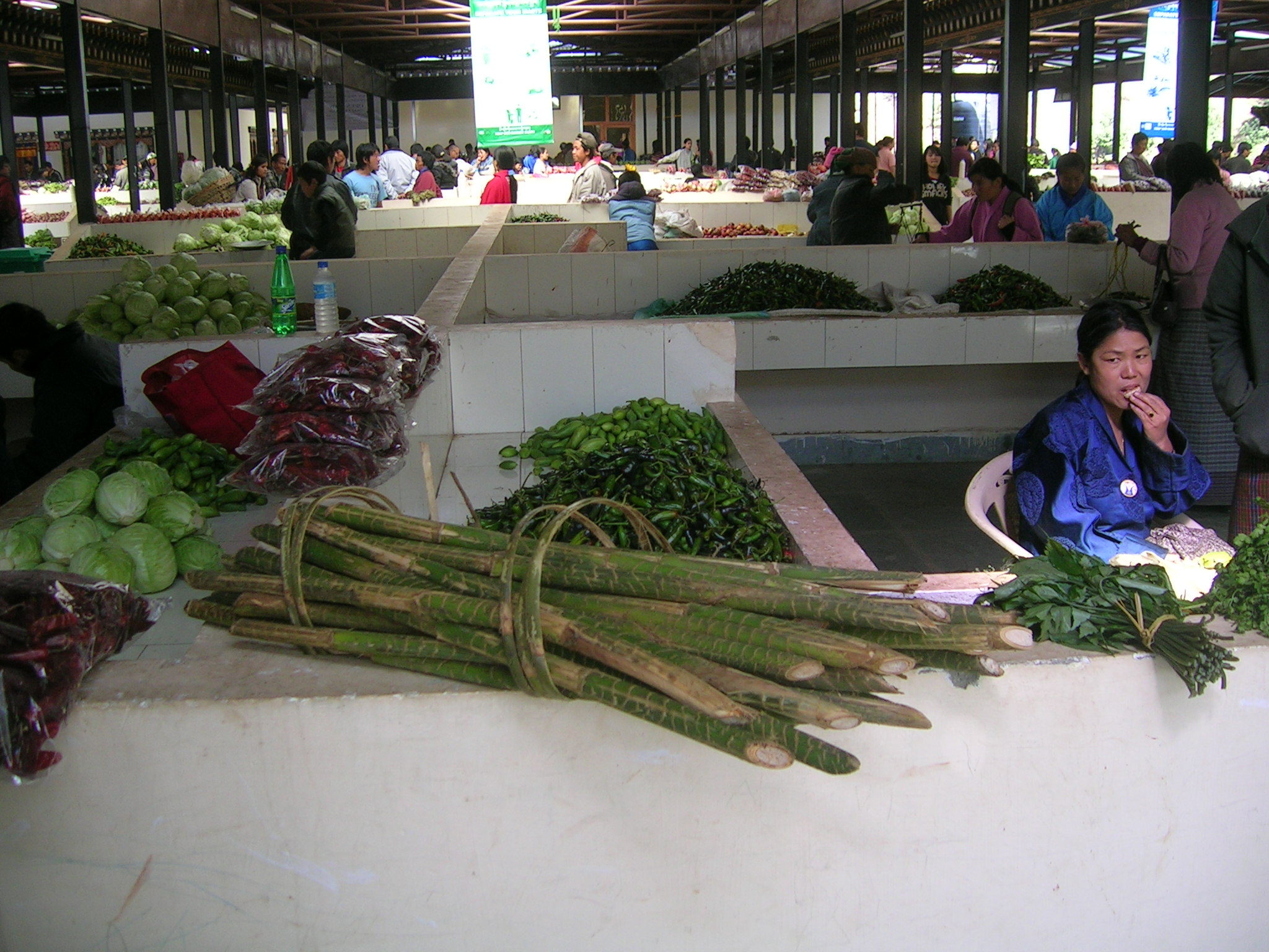 Plectocomia himalayana being sold in Thimphu farmer's market, Bhutan